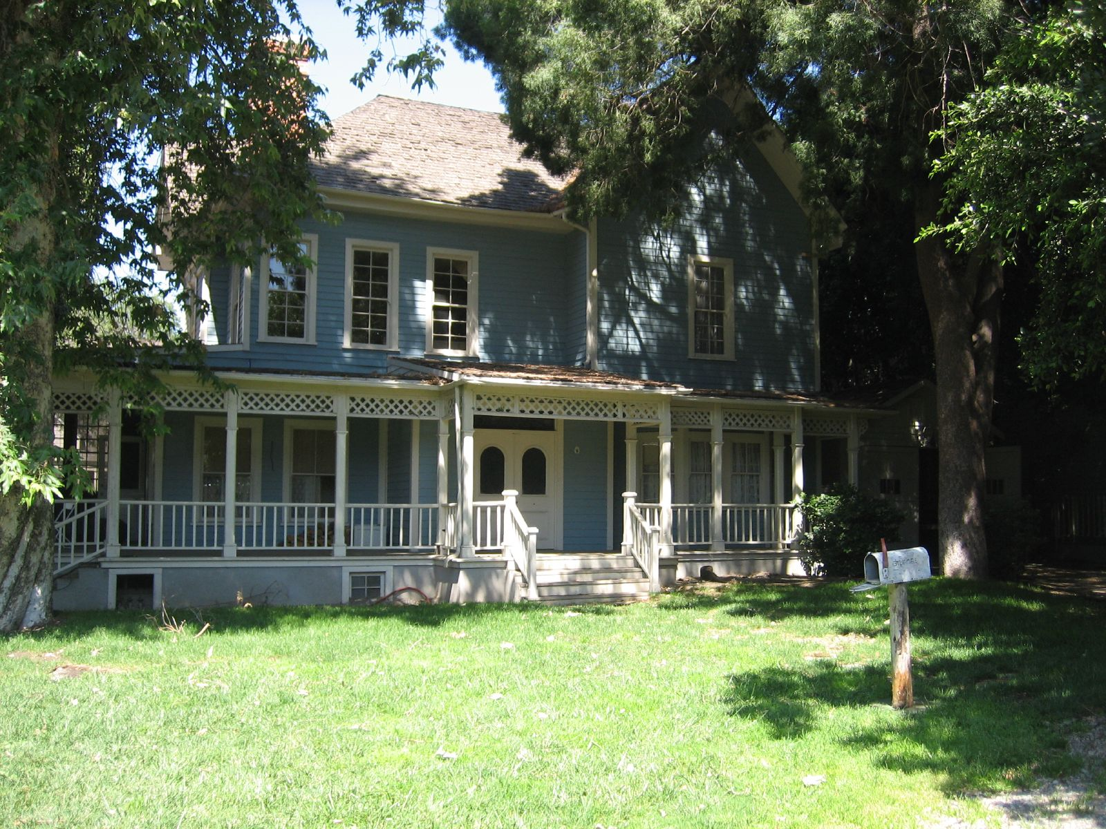 Gilmore Girl House Stage